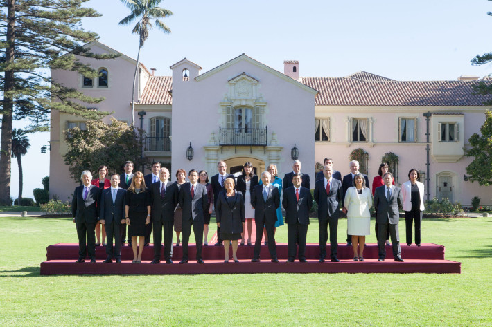 First official photo of Michelle Bachelet cabinet for her second term on 11 March 2014.